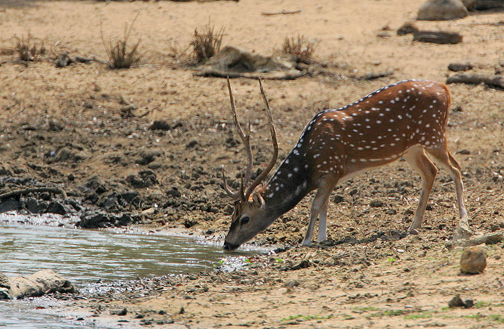 Cheetal Stag